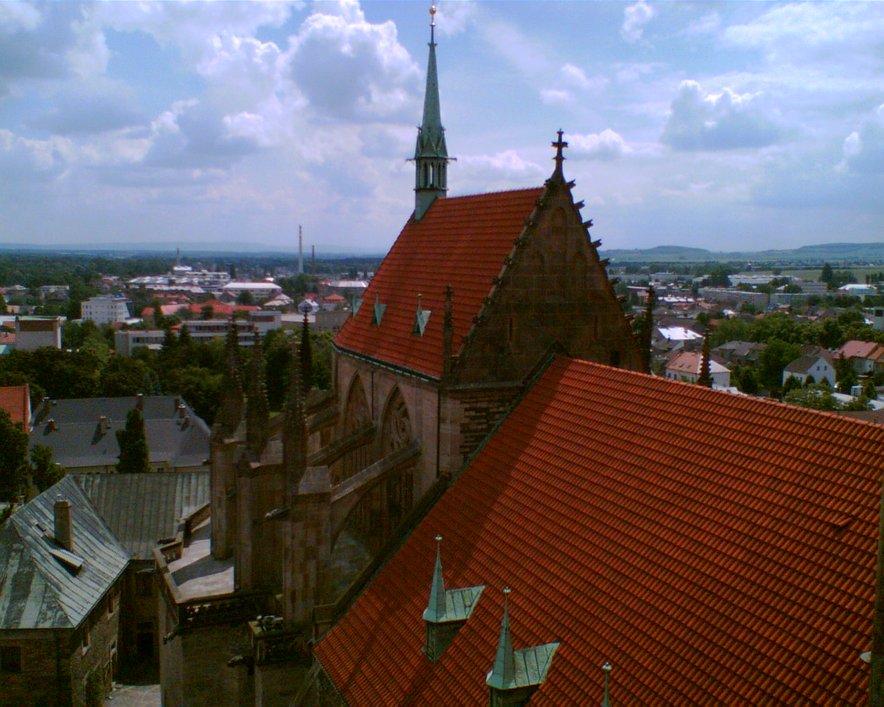 The choir of the St. Bartholomew church in Kolín, CZ